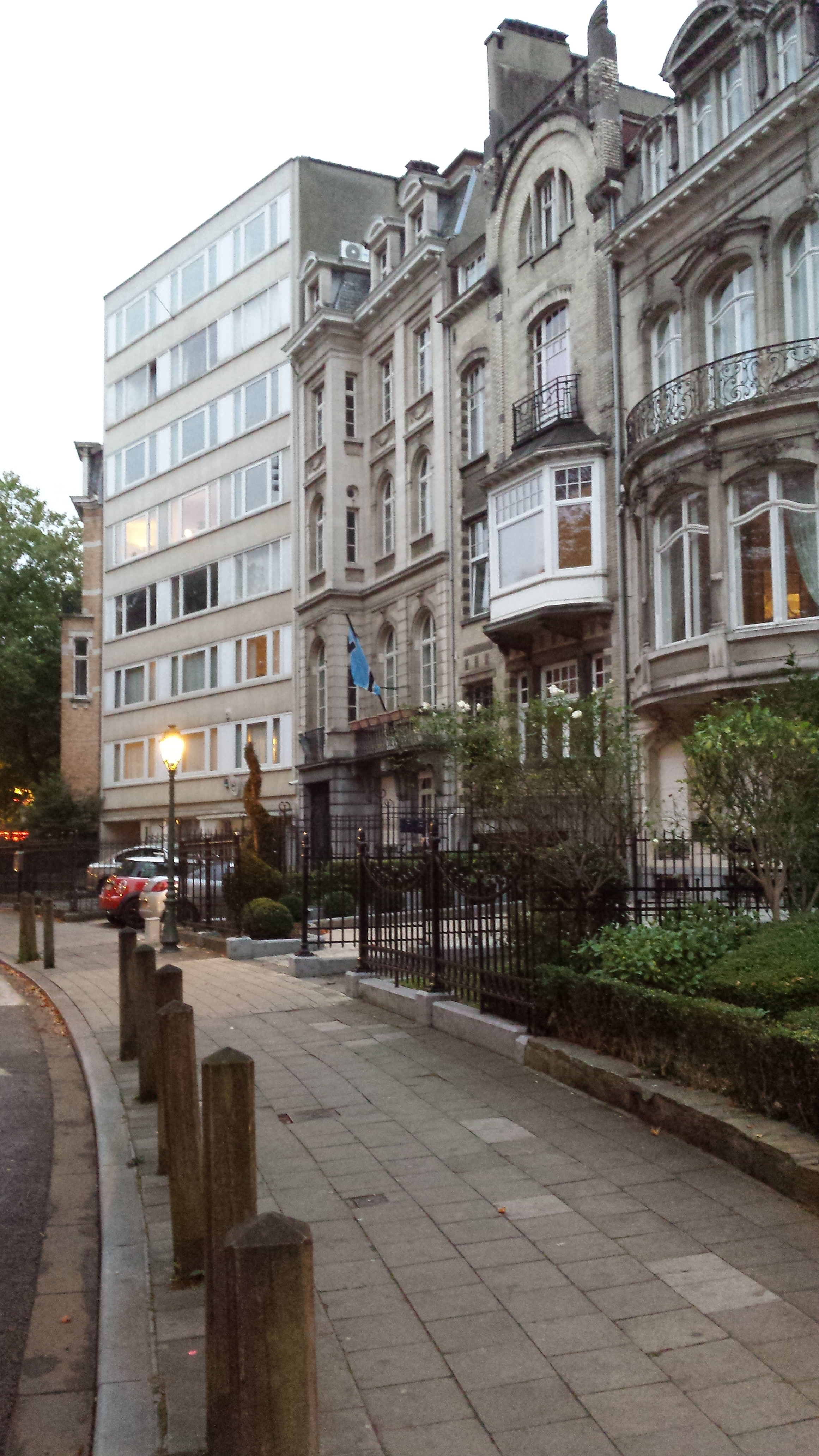 Embassy of Botswana in Brussels